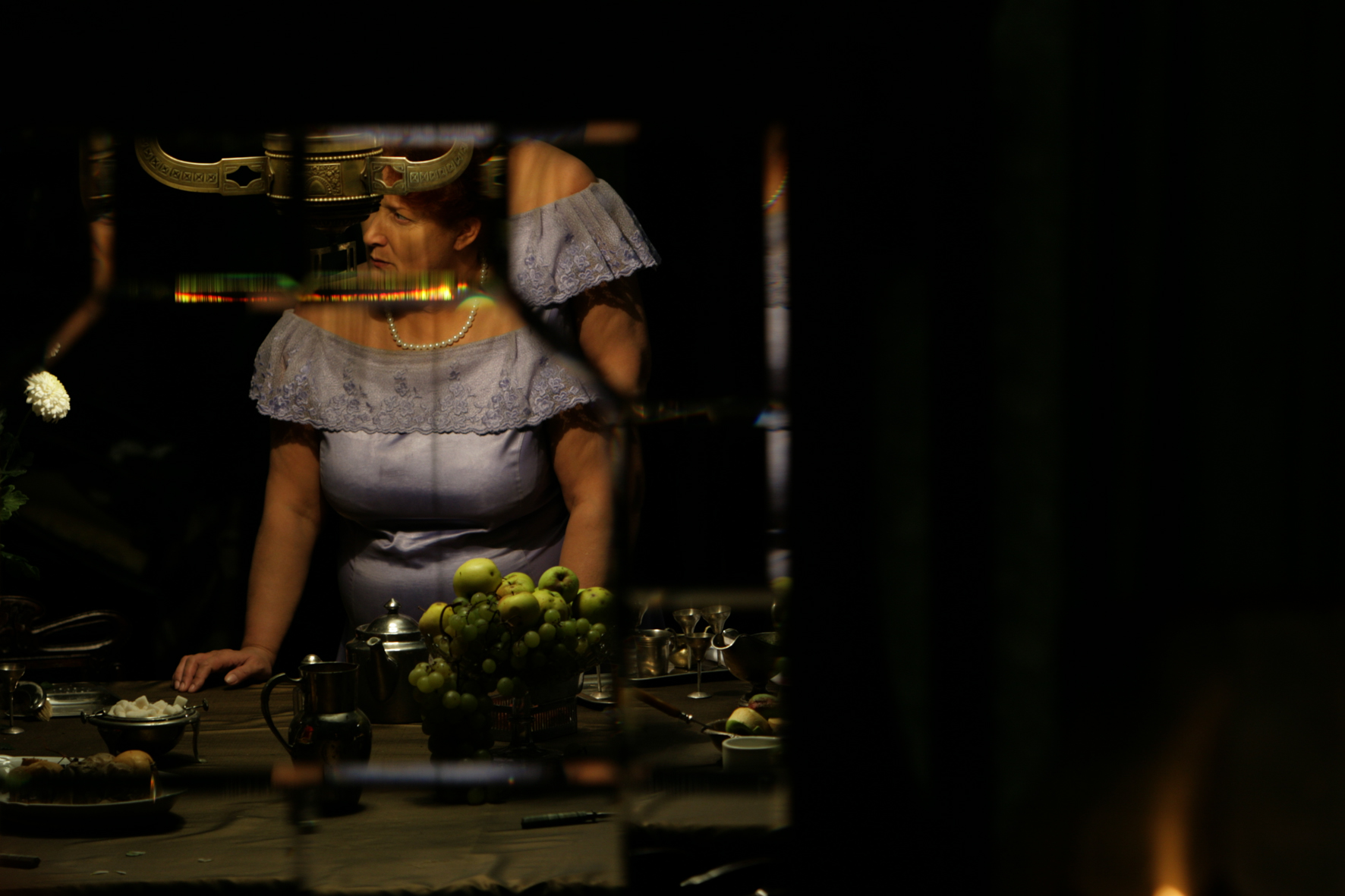 Still from Las Meninas(film) Author - Ihor Podolchak Source - Ihor Podolchak